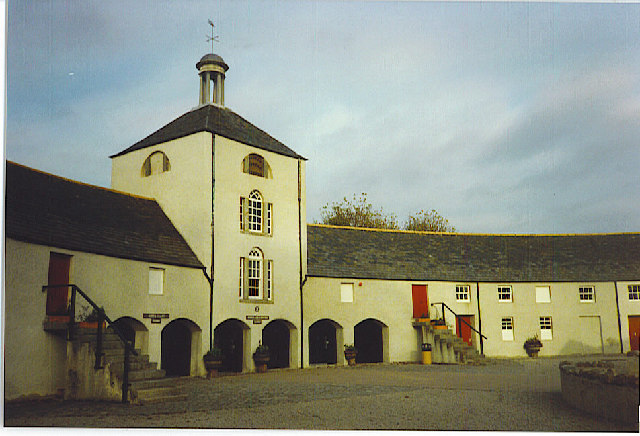 Farming museum at Aden Country Park, Aberdeenshire